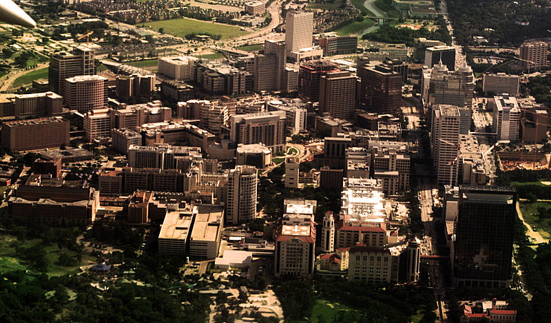 Texas Medical Center Aerial